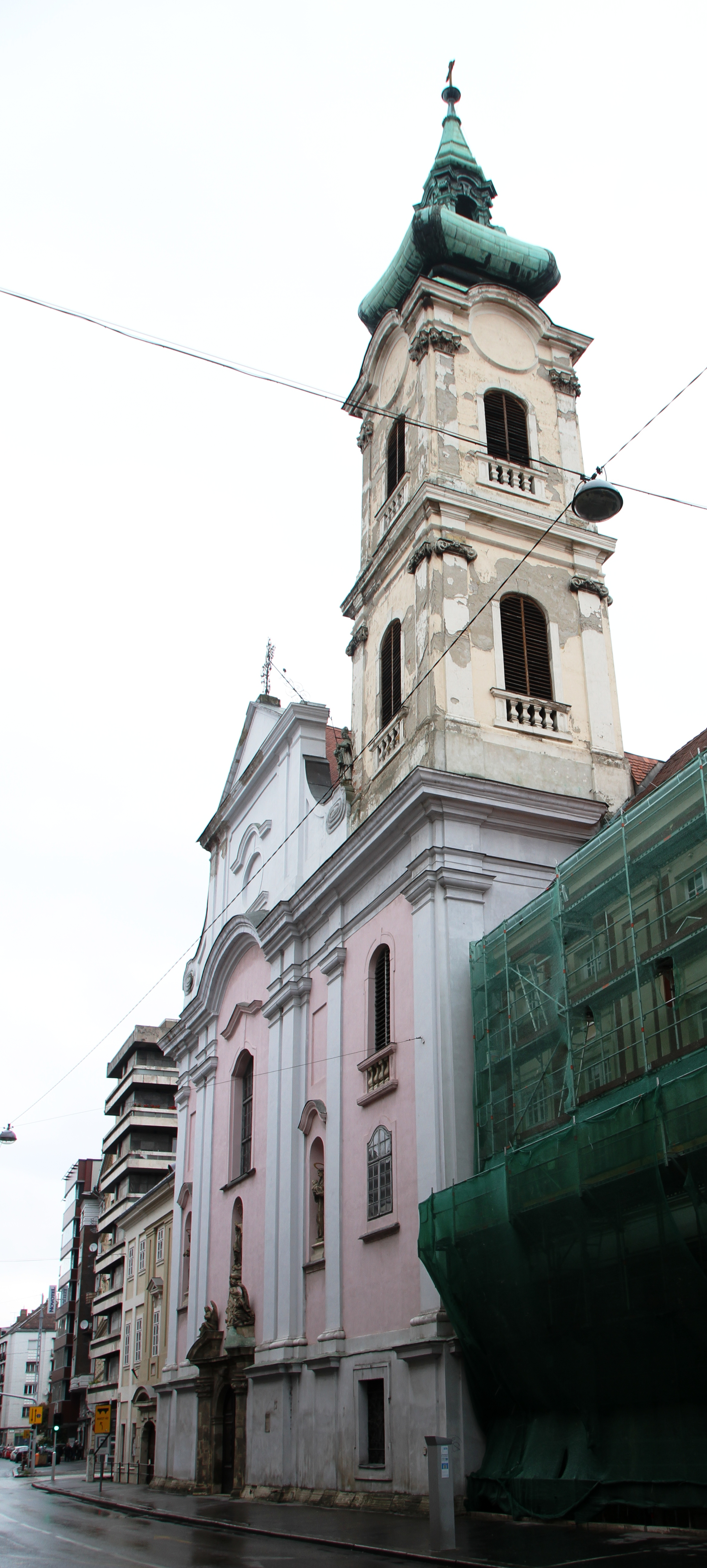 Saint Francis (Szent Ferenc) Church in the Fö Street, Budapest District I, Hungary